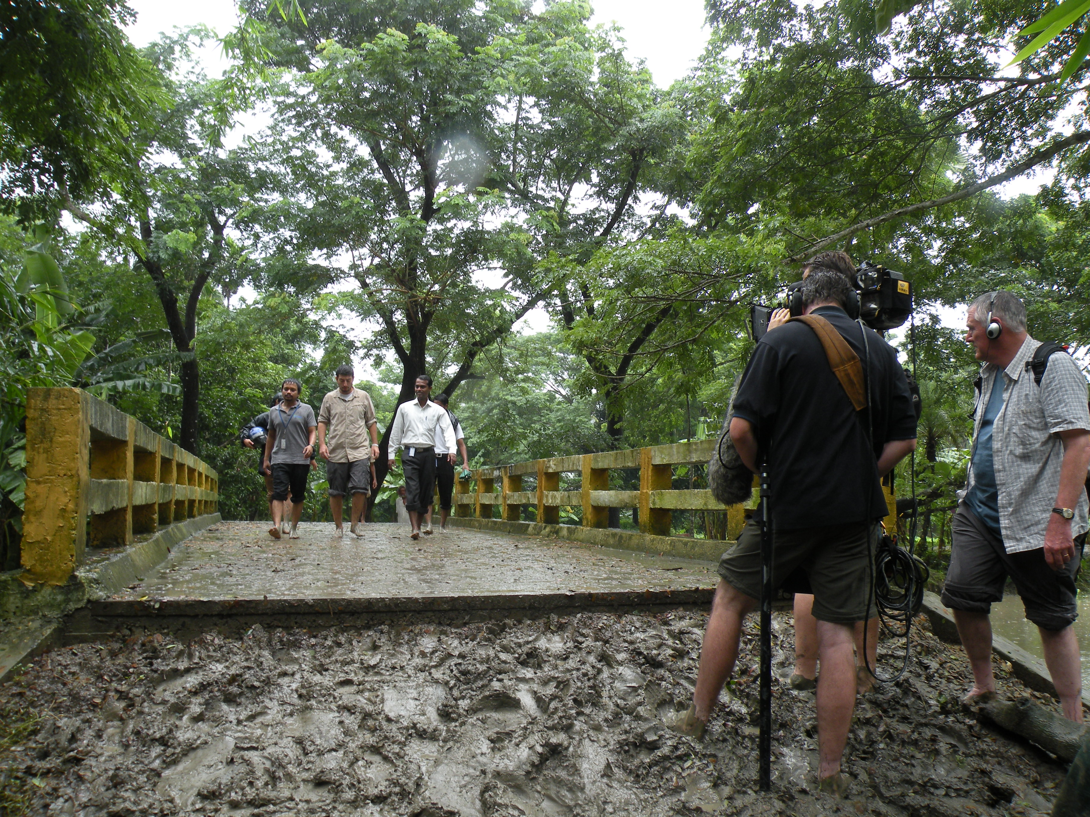 Australian volunteer Pierre Johannessen explains his work with Habitat for Humanity to an Australian film crew. Bangladesh, 2008. Photo: AusAID